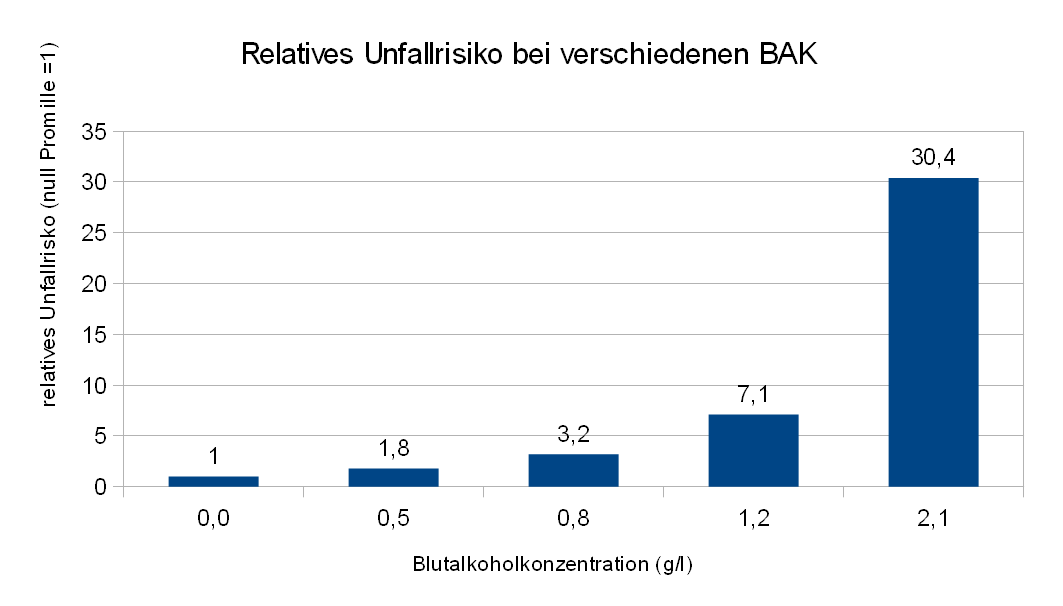 Relative risk of an accident based on blood alcohol levels.